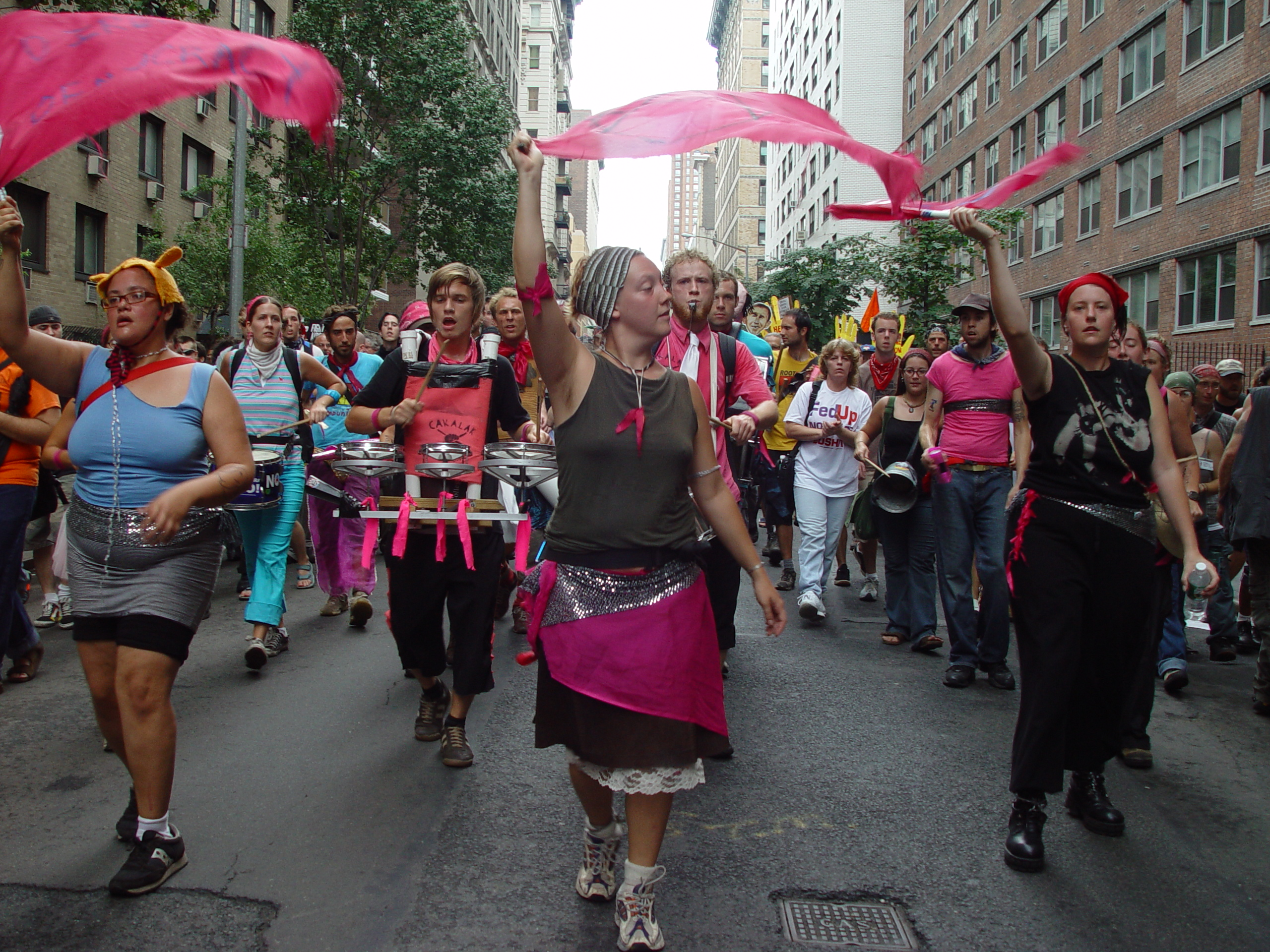 Protest of the Republican National Convention, New York City.